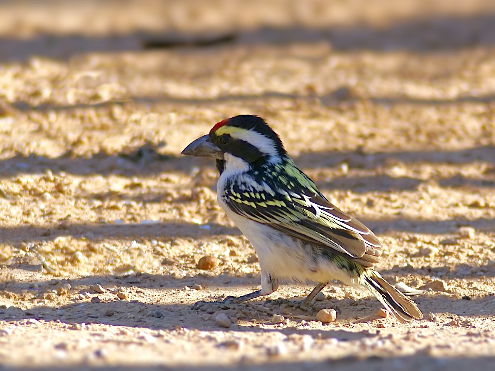 A Pied Barbet at Opuwo, Kunene Region, Namibia